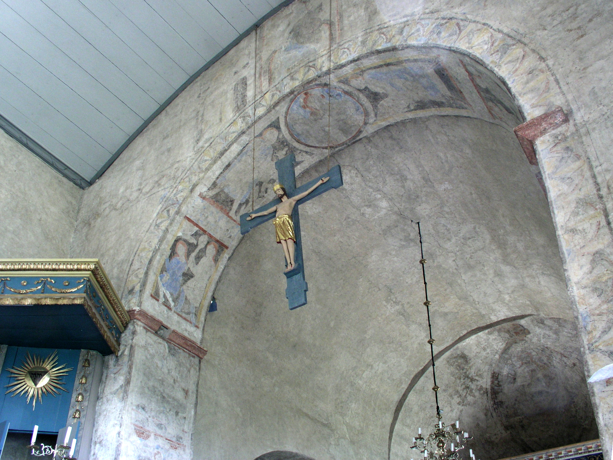 Resmo kyrka/church, Mörbylånga. Triumph Crucifix. The photo was taken by Håkan Svensson (Xauxa) the 2nd of August 2005.